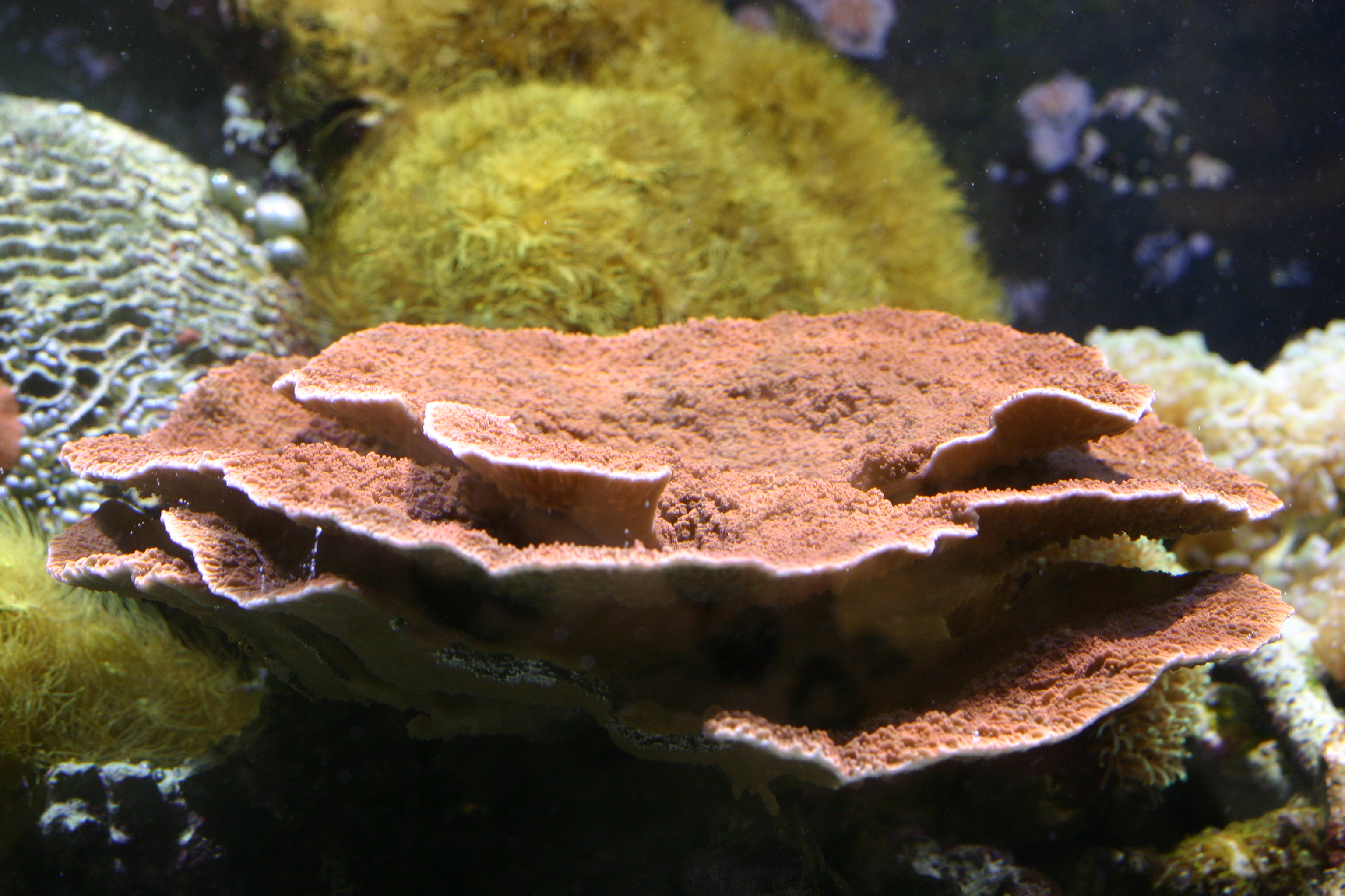 A leaf plate montipora coral, from the "OdySea" aquarium at Mohegan Sun Casino. Photographed with a Canon Digital Rebel and EF 50/1.8 lens. Identified by a posted sign on the aquarium.